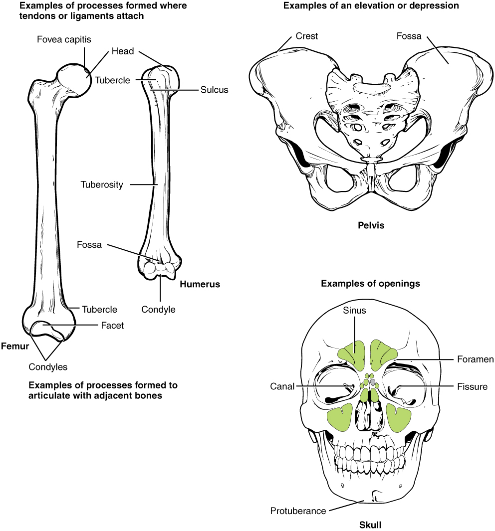 Illustration from Anatomy & Physiology, Connexions Web site. Jun 19, 2013.